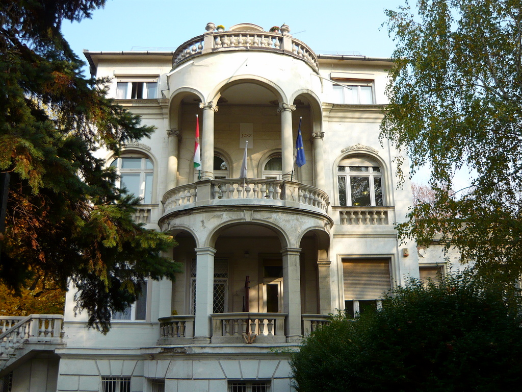 Main office building of the Hungarian political party JESZ (Jólét és Szabadság - ex Magyar Demokrata Fórum)